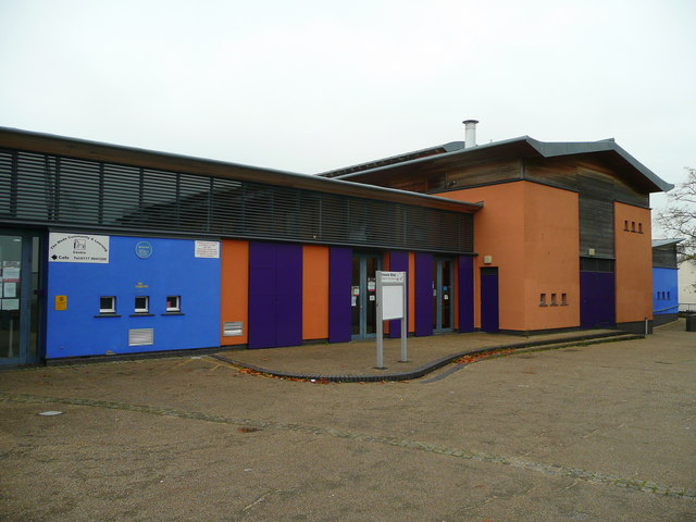 The Mede Community and Learning Centre Situated at Inns Court, the Mede serves Knowle West as a community centre.